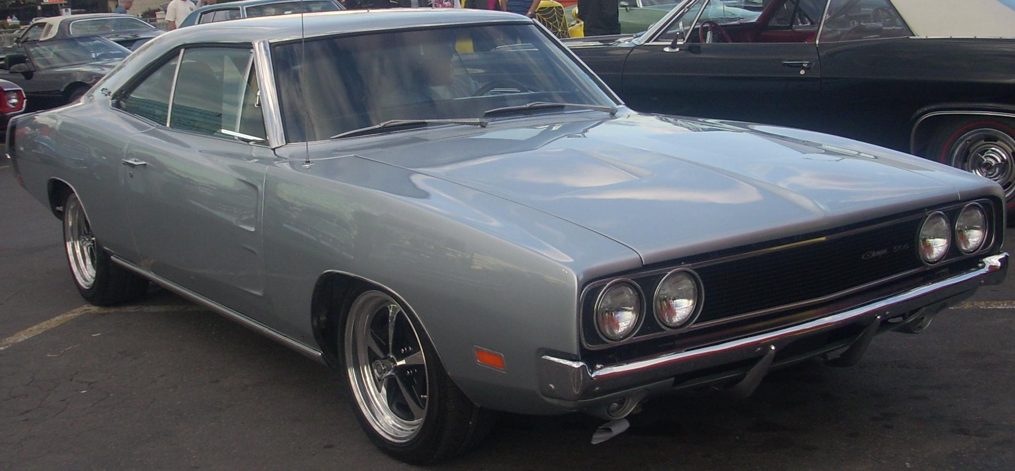 Dodge Charger 500 photographed in Montreal, Quebec, Canada at Gibeau Orange Julep.